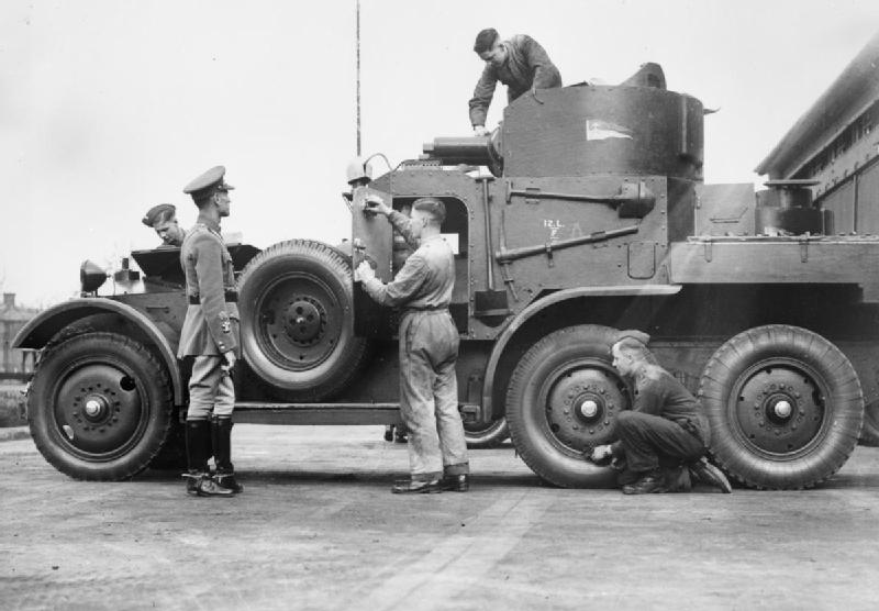 An officer and men of a cavalry regiment adopt industrious poses around a Lanchester 6x4 armoured car, 1938. (The 12th Lancers? The car is inscribed with a pennon and "12. L.". The date could be incorrect: the cars were being phased out in 1938 in Britain, and the awkward posing would be expected in a newly mechanised cavalry unit, as the 12th Lancers were in 1928.)